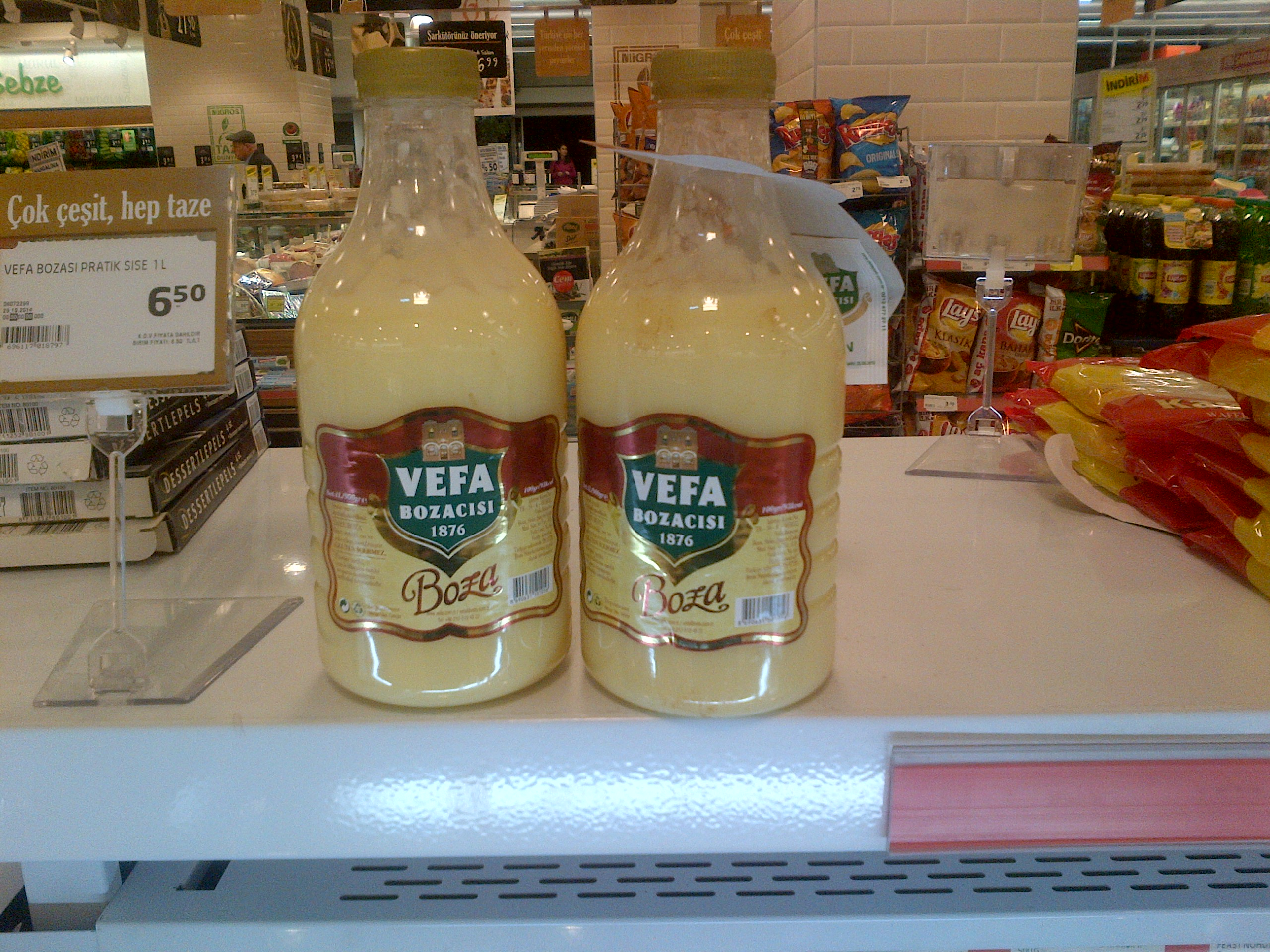 Boza of the famous brand "Vefa Bozacısı", producers of boza in Turkey since 1876.